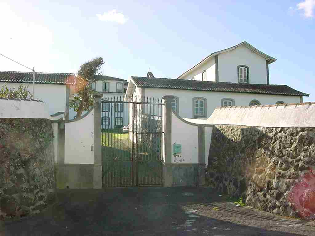 Solar Merens de Távora, entrada, São Mateus da Calheta, Angra do Heroísmo, ilha Terceira